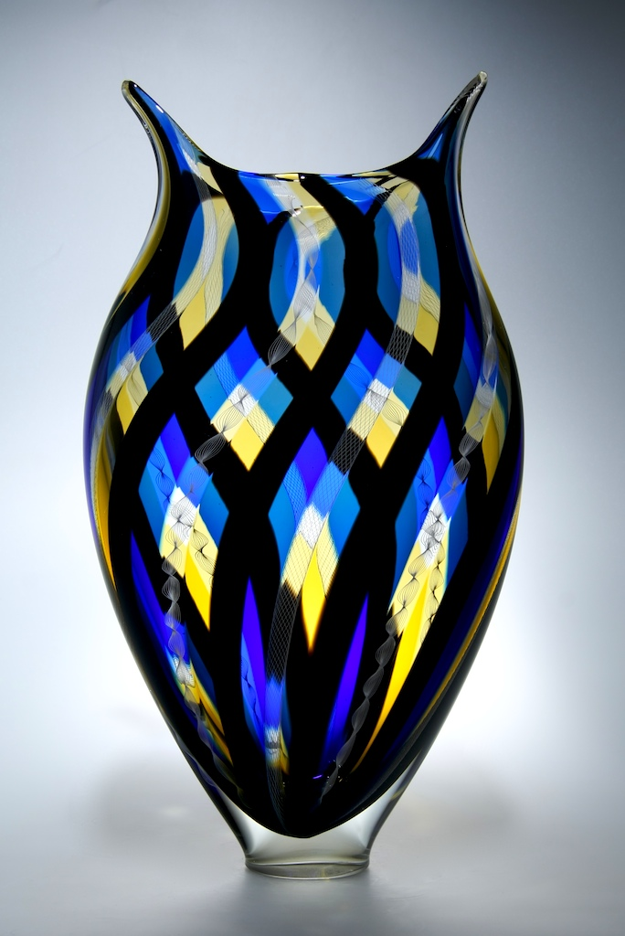 Example of canework in blown glass. Incorporates both solid color and complex cane. Created by David Patchen.